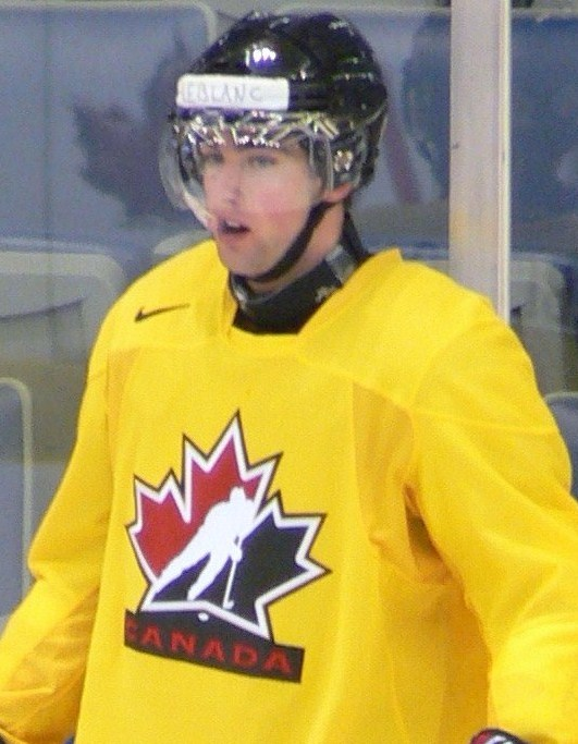 Louis Leblanc during Team Canada's tryout camp for the 2010 World Junior Championships.